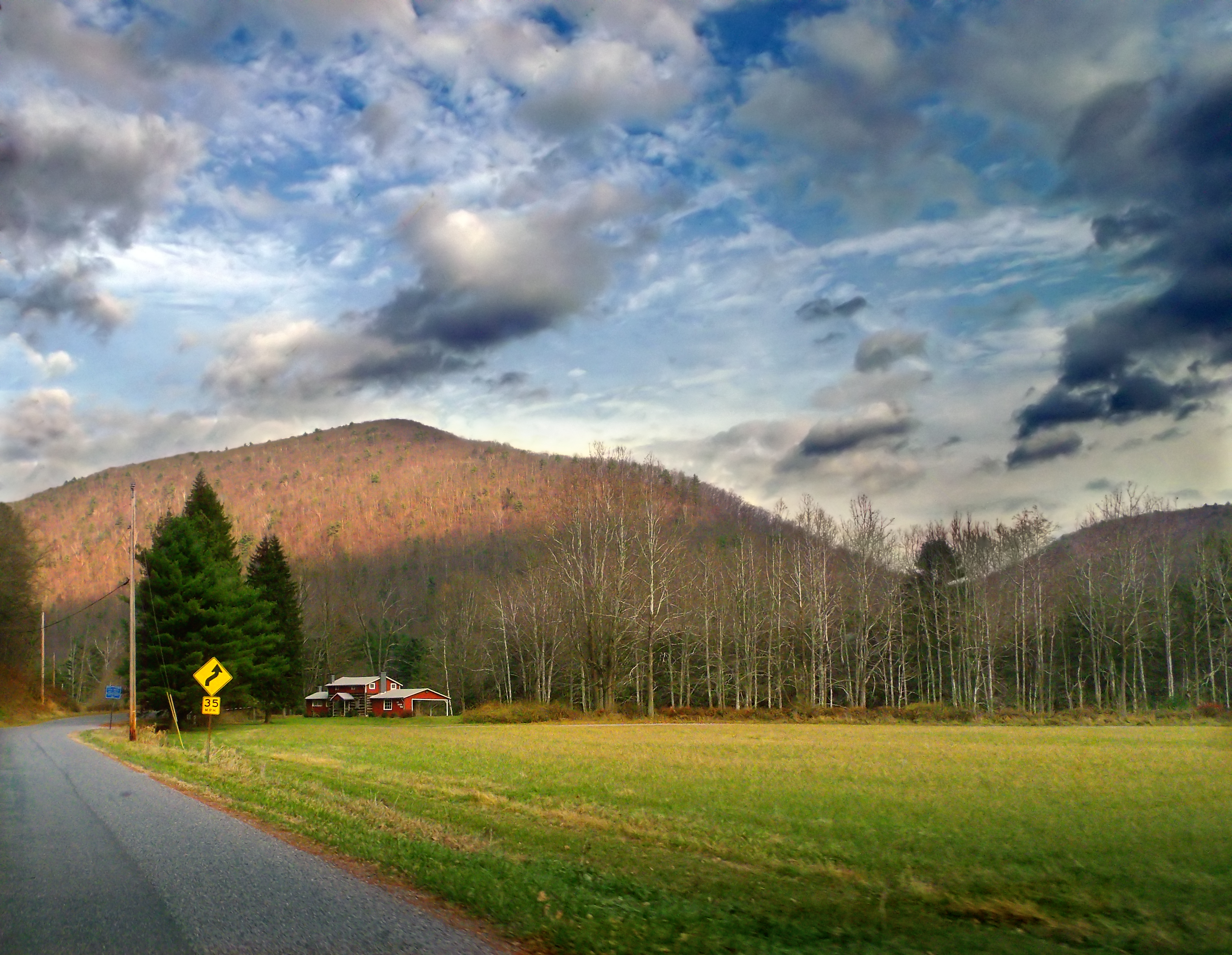 Pine Township, Lycoming County, along Little Pine Creek Road.